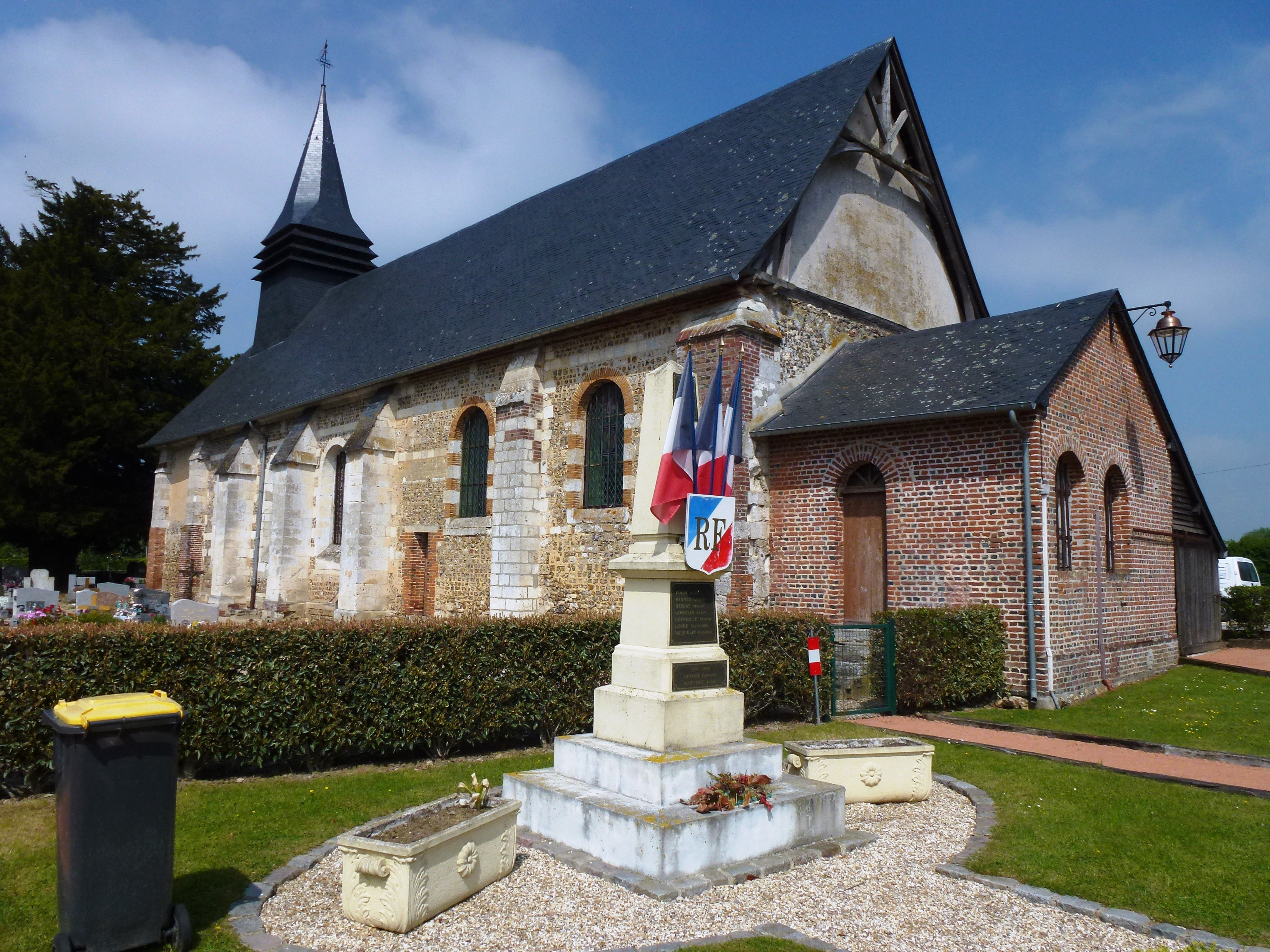 Duranville (Eure, Fr) église et monument aux morts